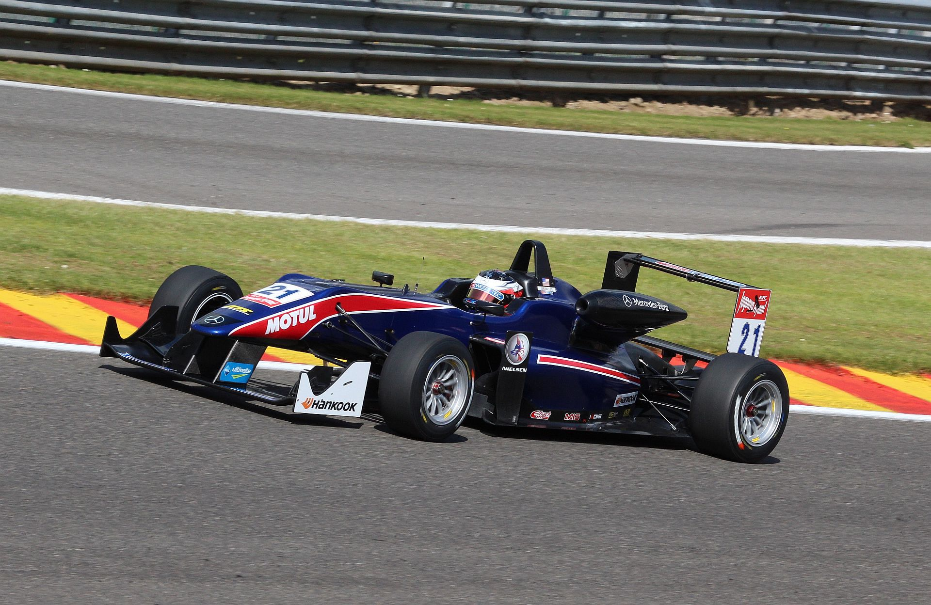 Felix Serralles at Spa in 2014, European Formula 3 Championship